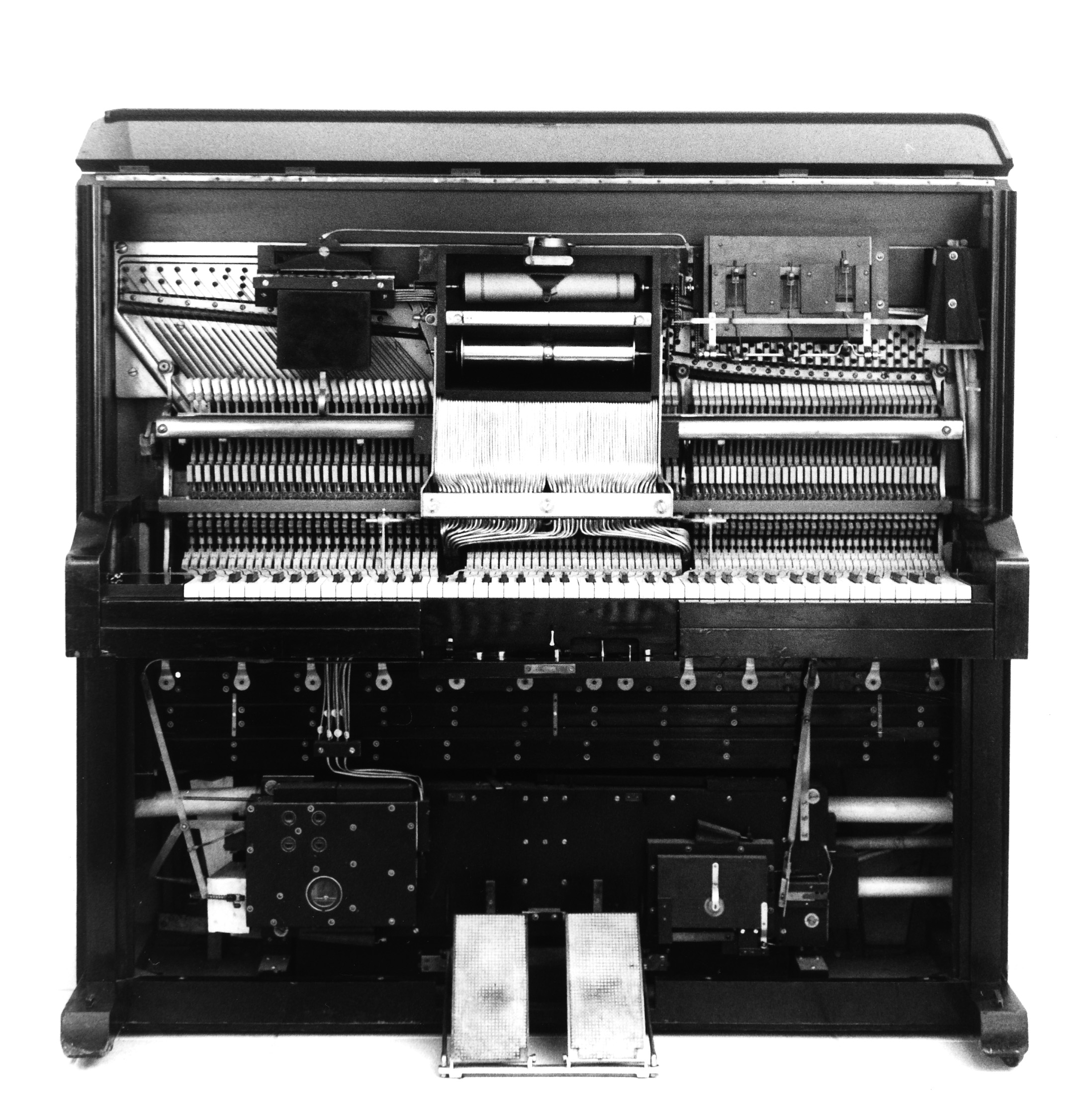 Mechanical piano Hupfeld Phonola, foot-operated